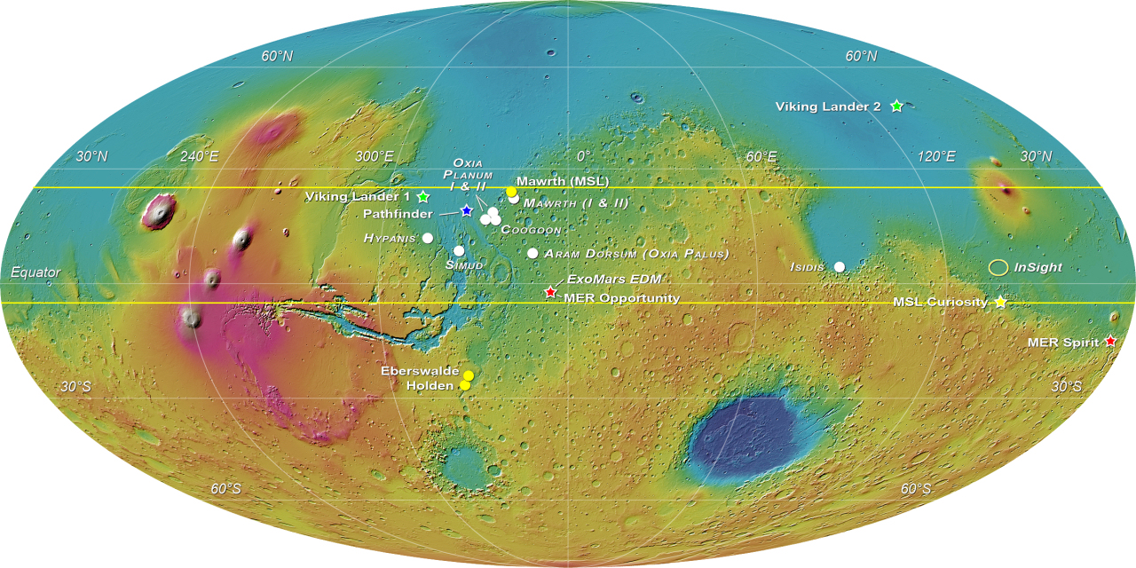 MOLA elevation map of Mars with white circles showing the eight landing sites proposed for the ExoMars 2018 mission: Mawrth Vallis (for which 2 proposals were received), Oxia Planum (2 areas were proposed), Coogoon Valles, Hypanis Vallis, Simud Vallis, Oxia Palus and Southern Isidis. A yellow star marks the position of the Curiosity rover; three other locations that were shortlisted for Curiosity are indicated with yellow circles. Other stars and ellipses are used to indicate past and future missions' touchdown spots. This image was compiled by E. Hauber for the Landing Site Selection Working Group.